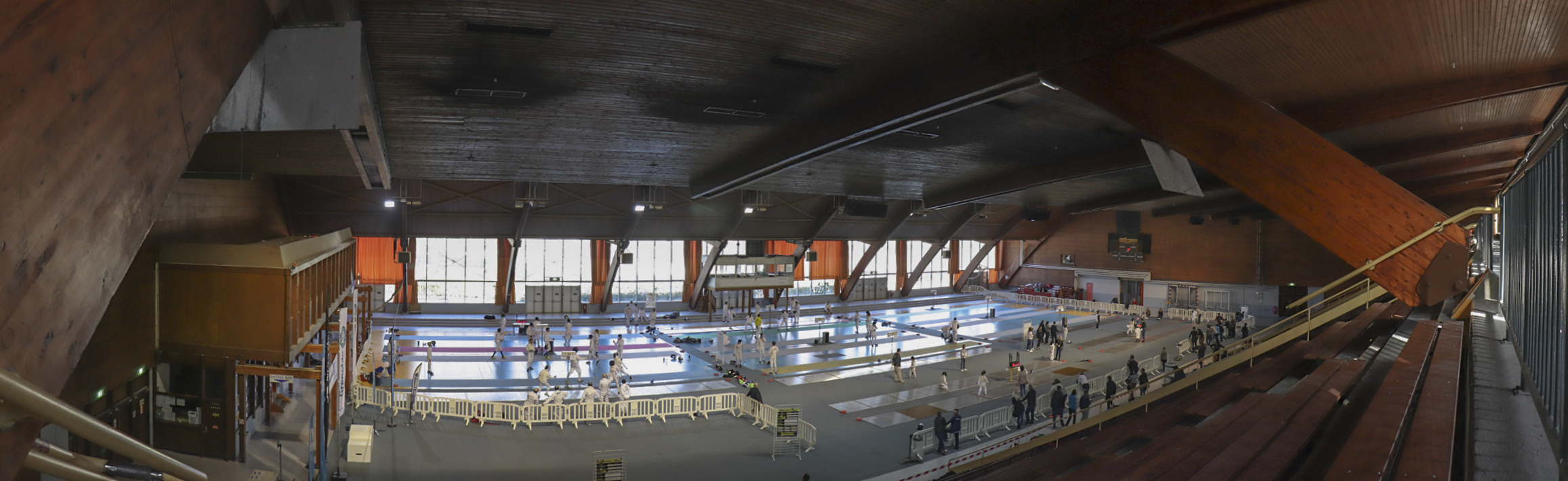 Vercors Cup (fencing championship) in the Halle Clémenceau, Grenoble, February 2020